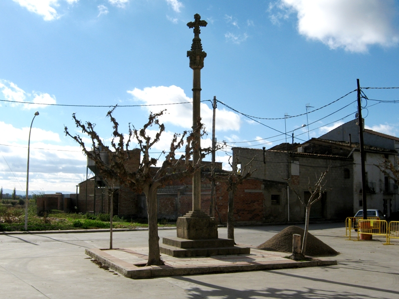 Wayside cross in Boldú, municipality of La Fuliola.